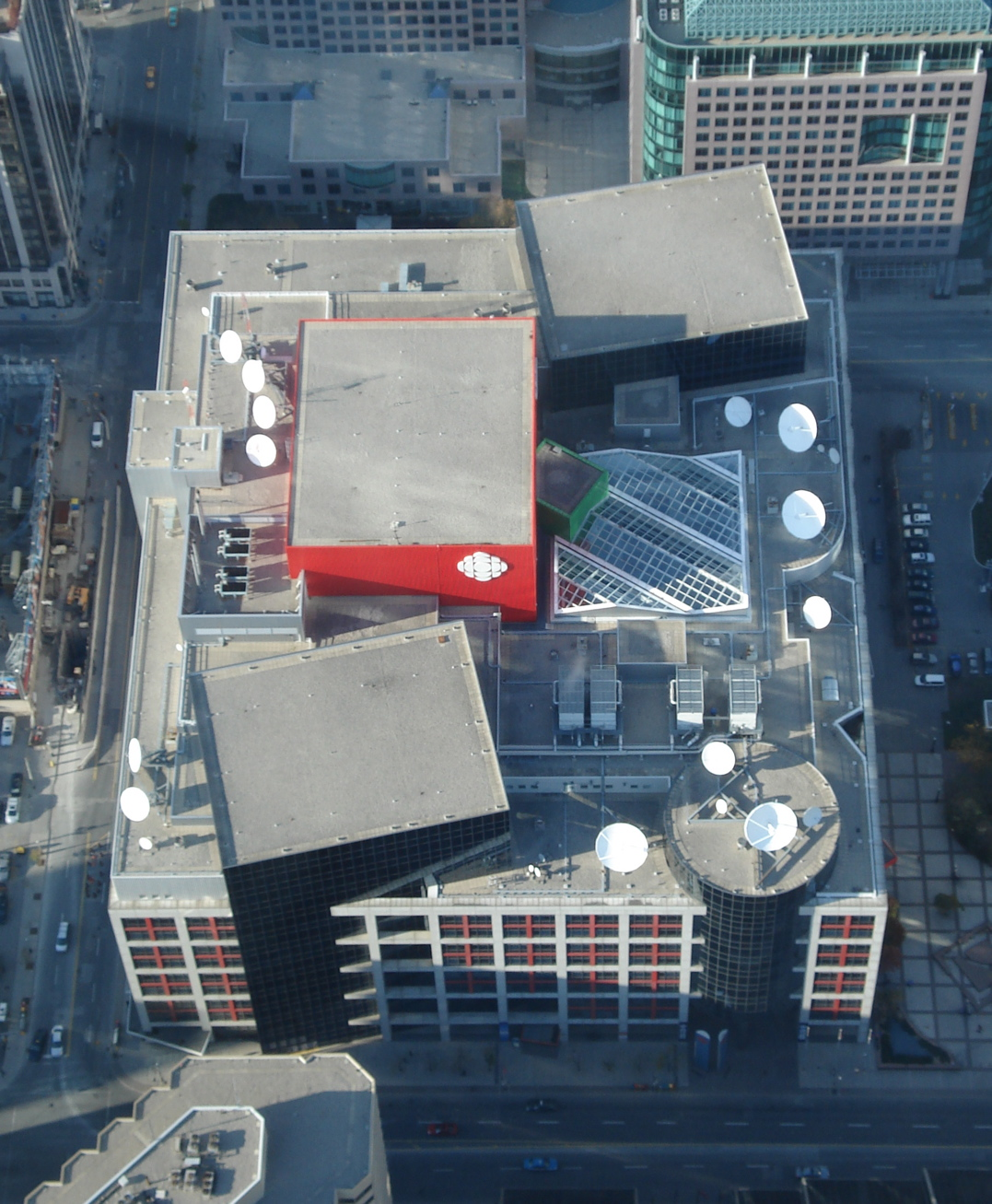 Canadian Broadcasting Center seen from the Skypod observation deck of the CN Tower. Photo taken on October 15, 2006.